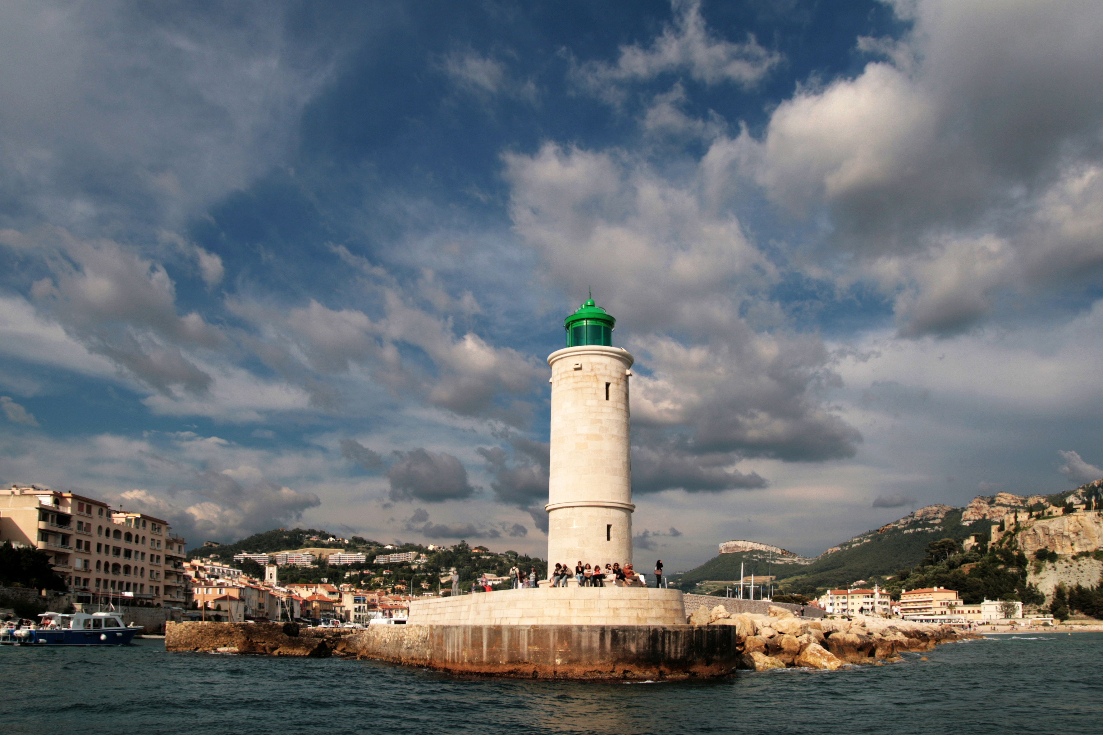 Lighthouse in Cassis, France